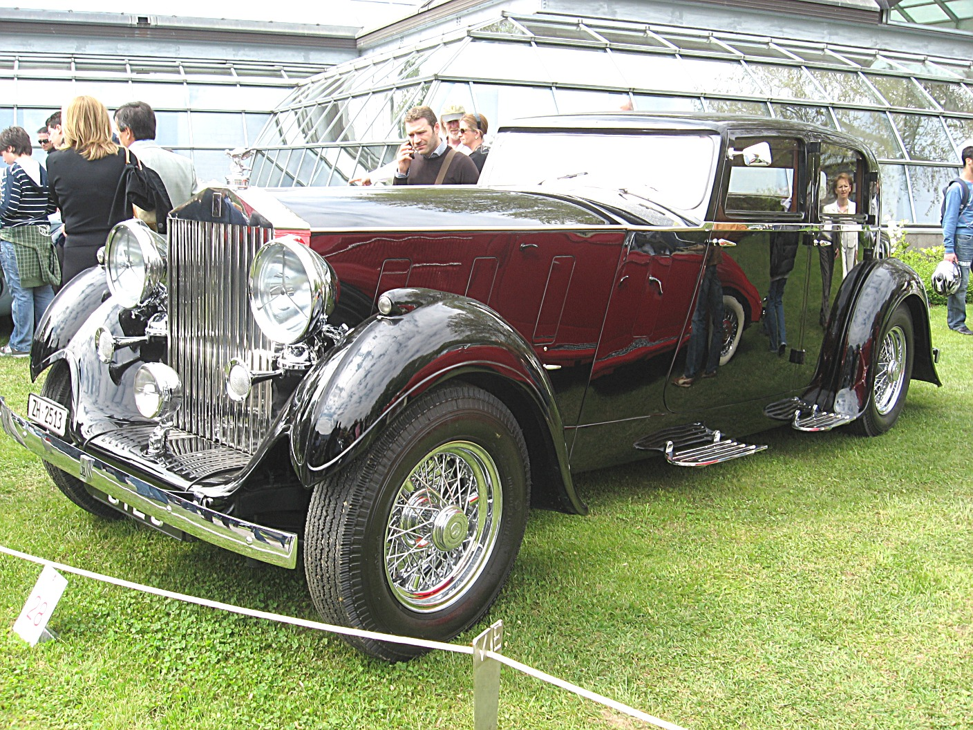 Subject: Rolls-Royce Phantom III (1937) Sports Saloon, coachbuilt by Barker, Chassis #3BU78 Author:Luc106 Date:April 27th, 2008 Event:Concorso d’Eleganza”Villa d’Este” 2008 Place/Country: Cernobbio (CO), Italy I release all rights in the public domain.